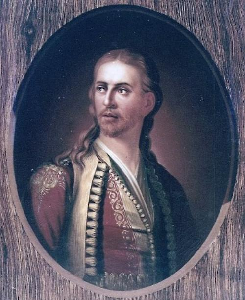 Ilias Mavromichalis (born 1795 in Mani, died 1822 in Styra) was a commander of the Maniots who participated in the Greek War of Independence.